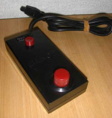 Famicom version of the Vaus, or Arkanoid, controller, released in Japan